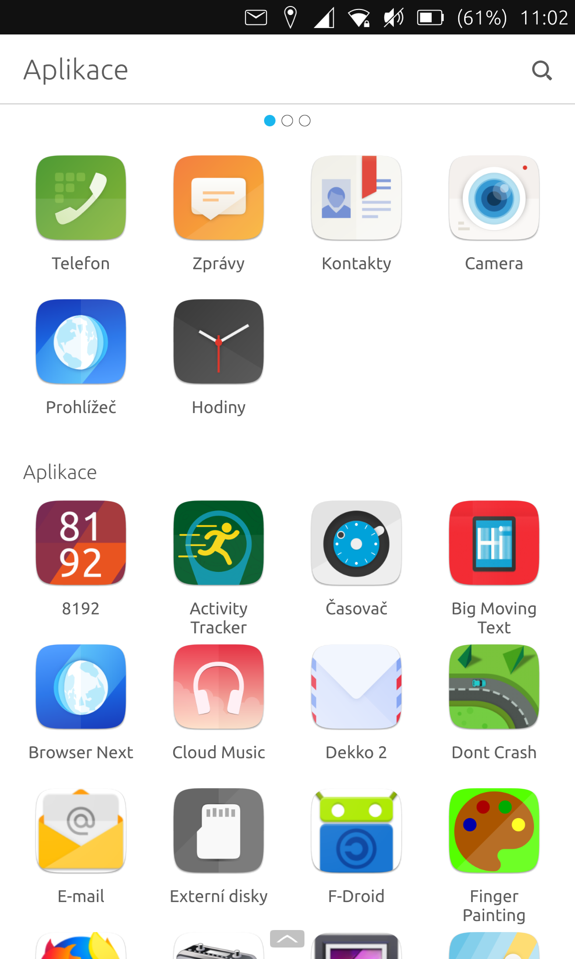 Ubuntu Touch 16.04 on Meizu MX4 Arale with Anbox installed able to run Android applications.